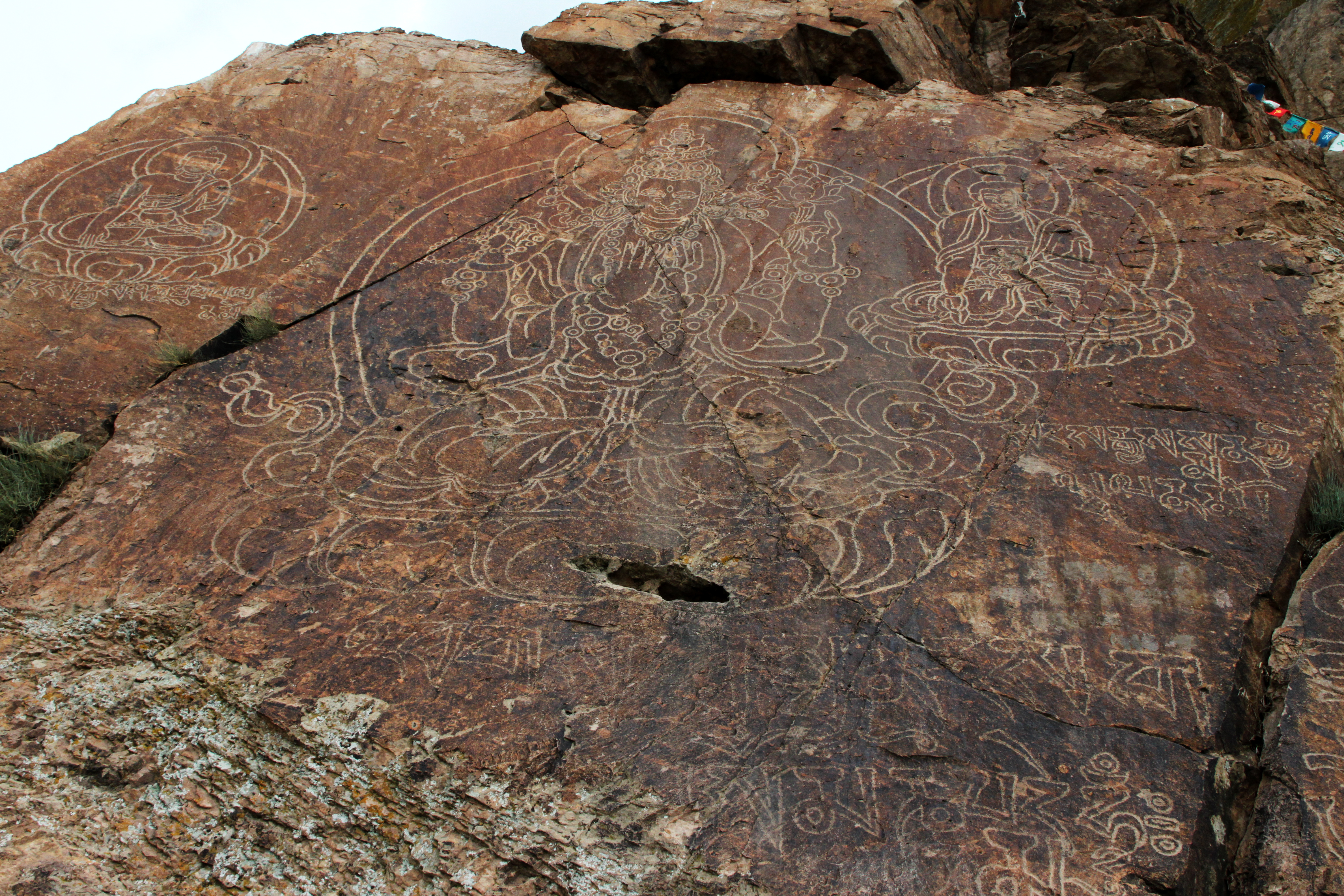 Petroglyphs in Tamgaly-Tas, Almaty Province, Kazakhstan